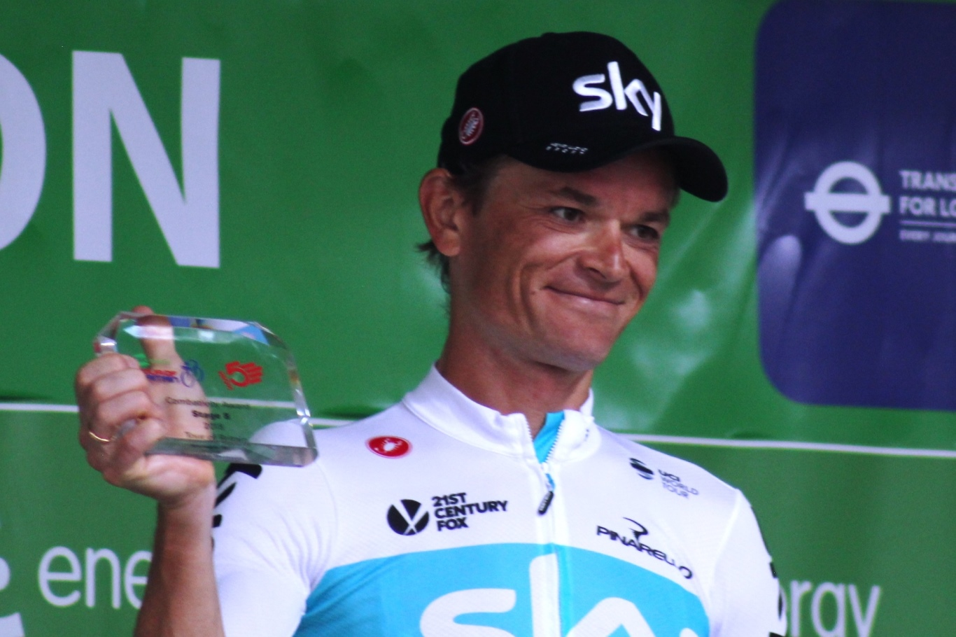 Team Sky's Vasil Kiryienka was awarded the combativity award for stage eight of the 2018 Tour of Britain during which he rode a solo breakaway for several laps of the London cirusit.